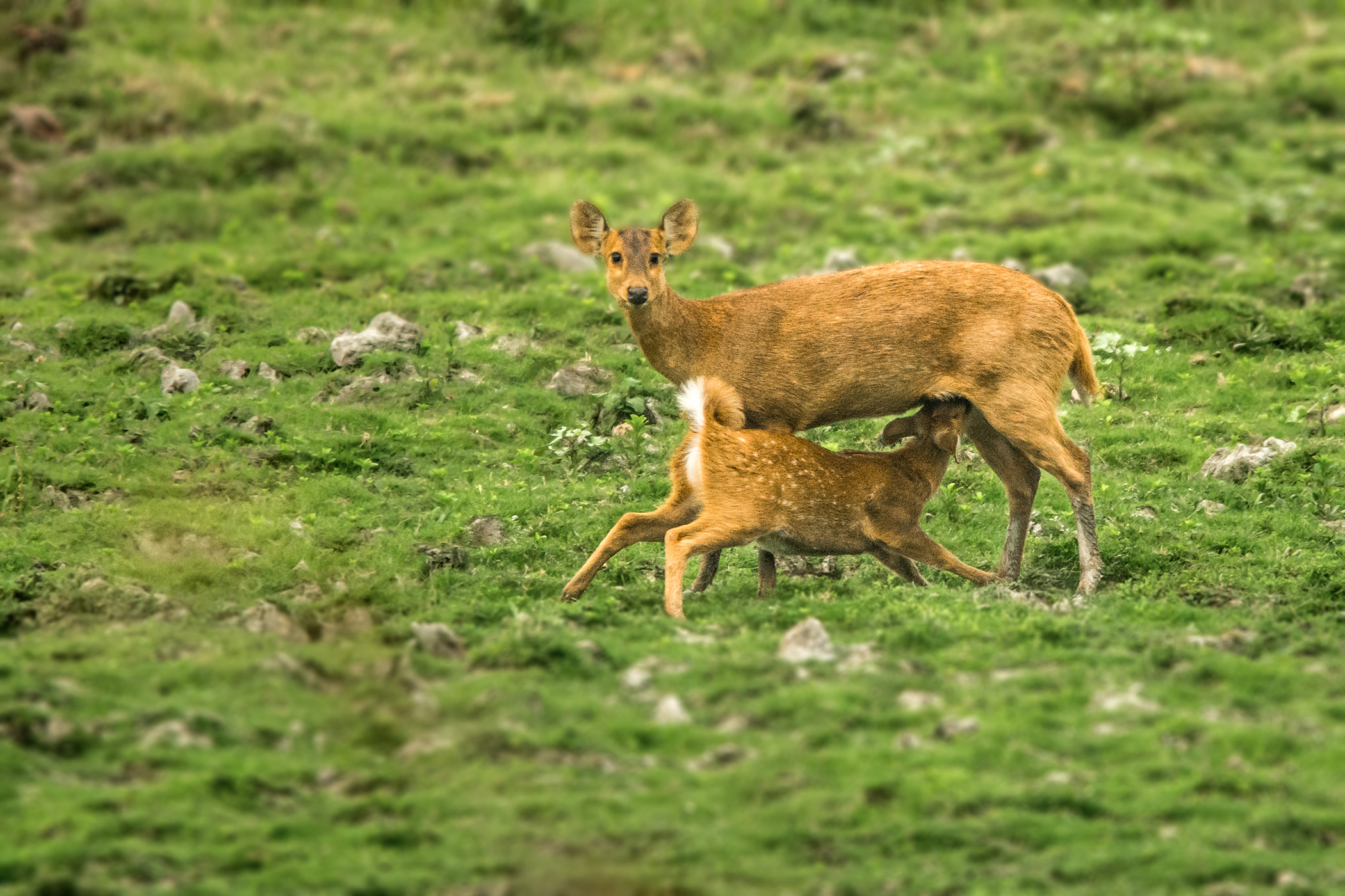 A mother hog deer feeding her calf at Kaziranga National Park, Assam, India